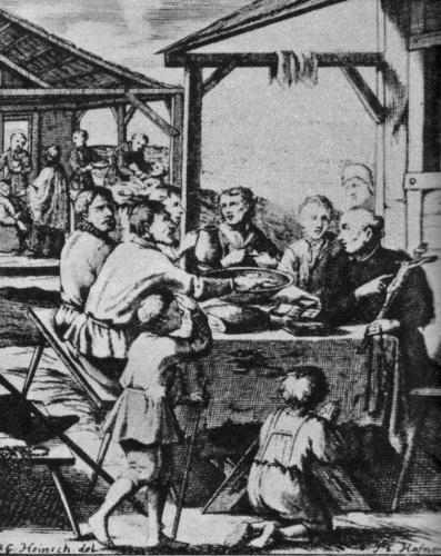 Re-catholicization in Bohemia- missionaries turned people on the Catholic faith